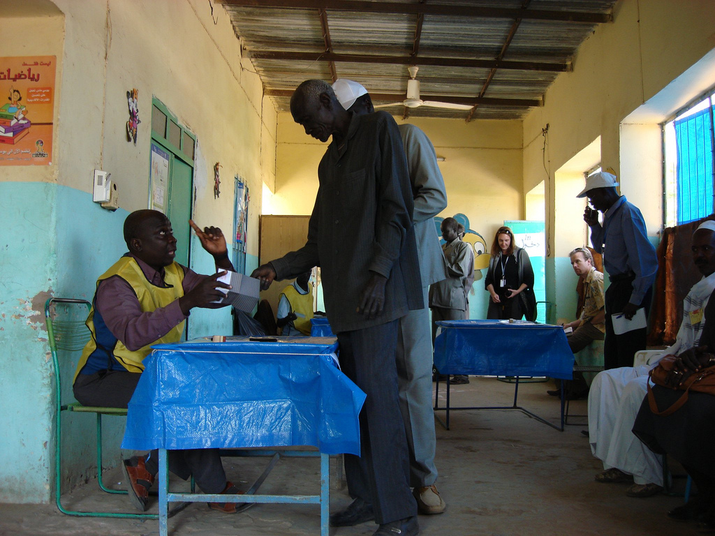 A poll worker explains the process to a voter at a site in Al Gezira state in northern Sudan on January 10, 2011. Mirella McCracken/USAID.